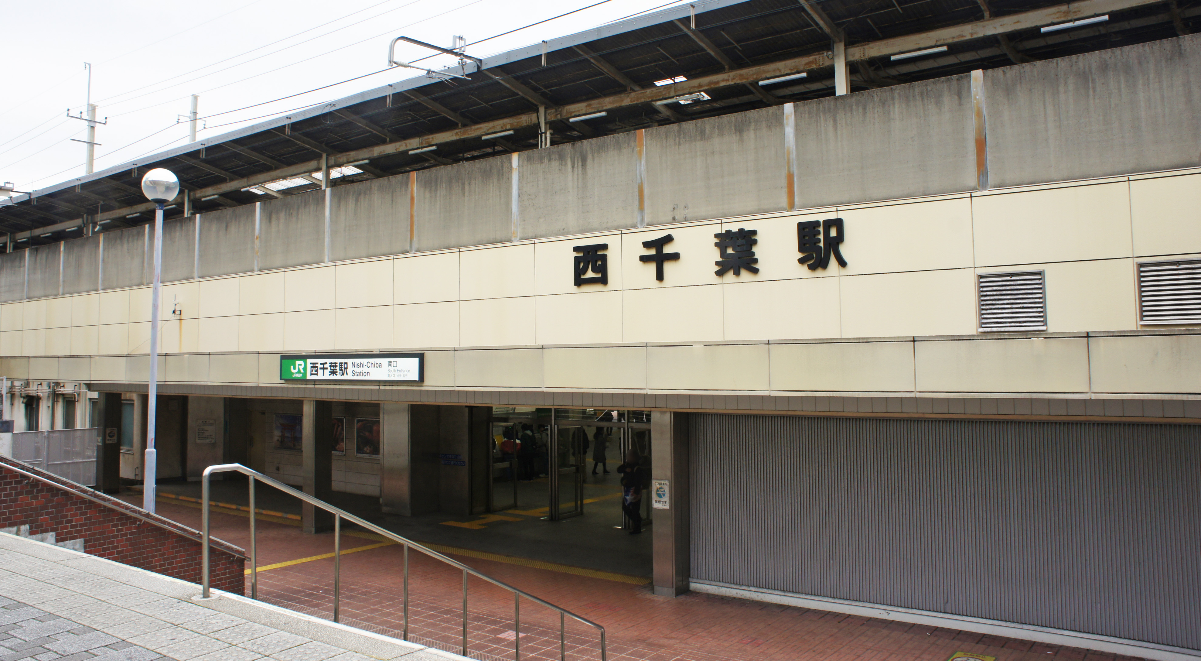 South Exit of JR Sobu-Main-Line Nishi-Chiba Station